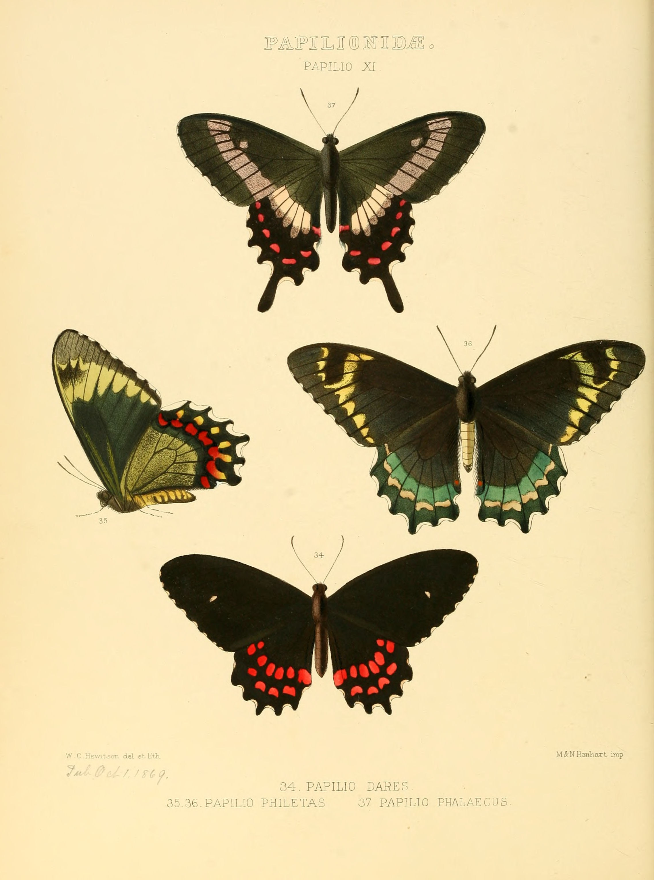 Plate: Papilio XI Papilio dares. Fig. 34. Accepted as Parides photinus (Doubleday, 1844). Papilio philetas. Figs. 35, 36. Accepted as Battus madyes (Doubleday, 1846). Papilio phalæcus. Fig. 37. Accepted as Parides phalaecus (Hewitson, 1869).